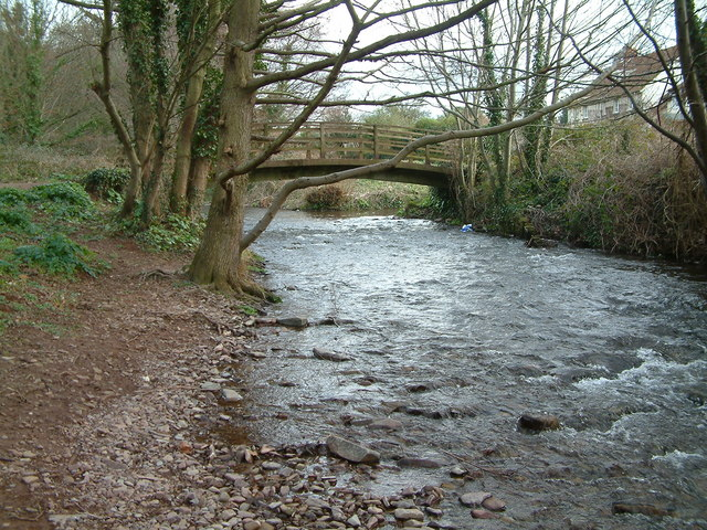 Bridge at Bossington